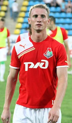 Vladislav Ignatyev playing for FC Lokomotiv Moscow.